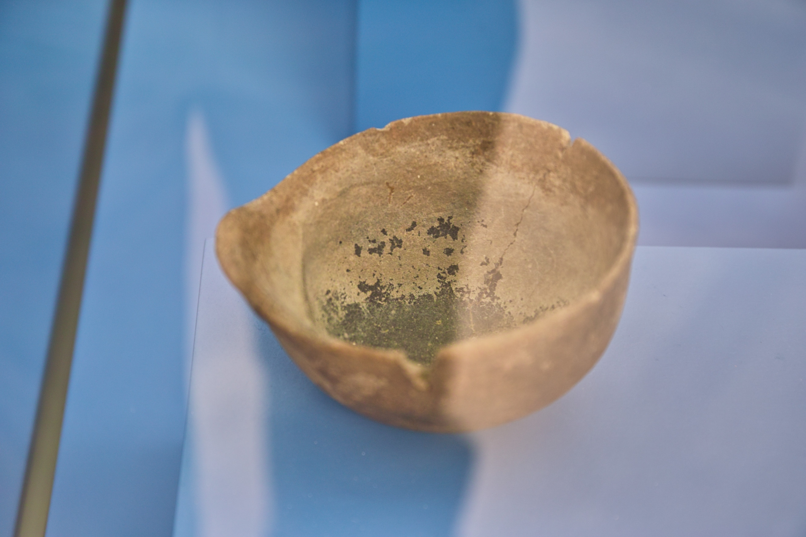 Early sample of Benahoarita ceramics.